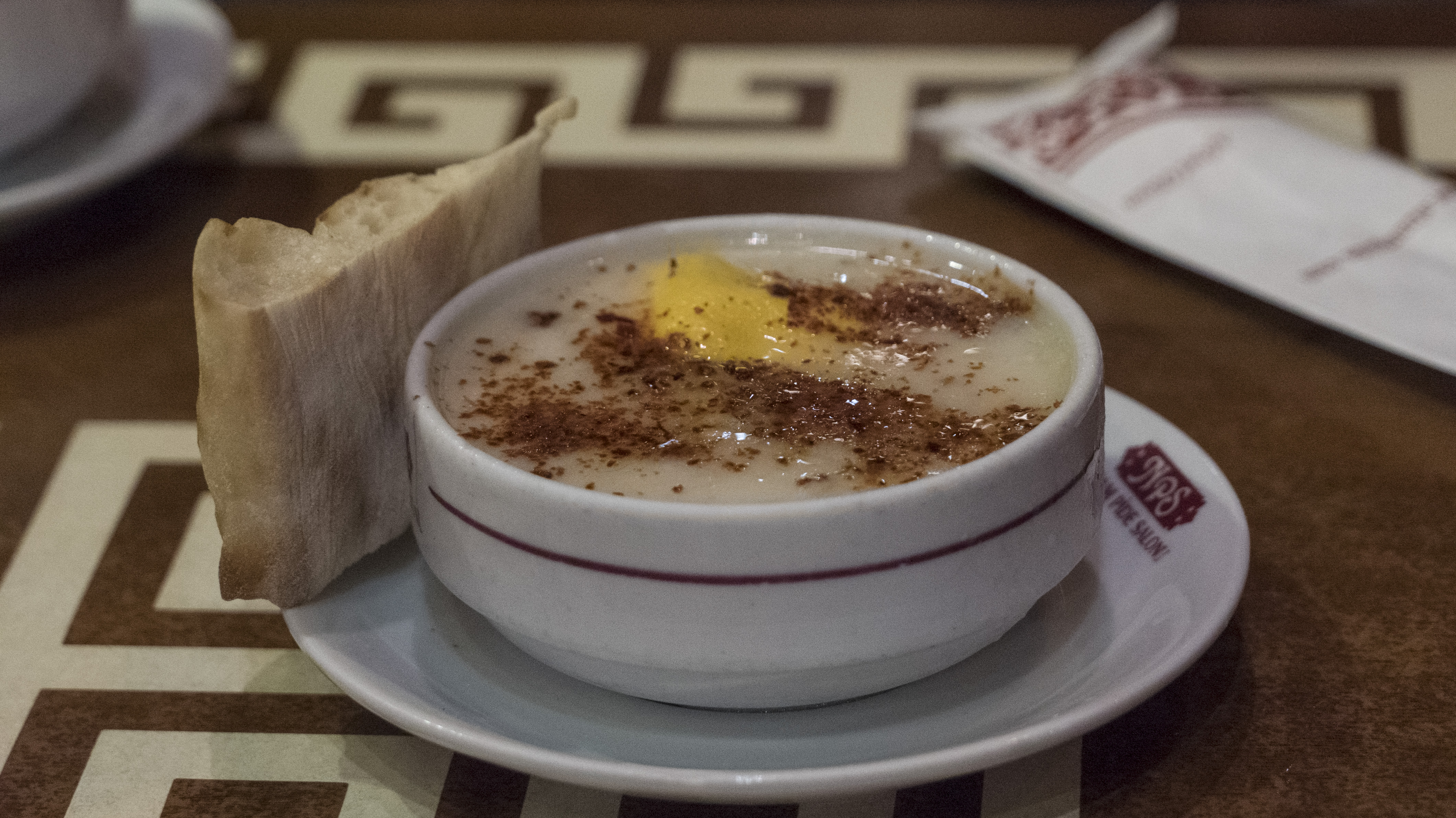 Kelle paça çorbası - head and leg soup at Nizam Pide